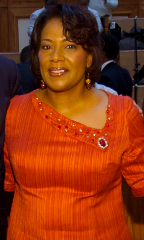 NASA Administrator Charles Bolden, right, joins in a group portrait with the niece of Martin Luther King, Jr., Alveda King, far left, Father Frank Pavone, wife of Martin Luther King, Jr's brother, Mrs. Naomi Barber King, Dr. Cameron Alexander, Dr. Frederick D. Haynes III, daughter of Martin Luther King, Jr., Dr. Bernice A. King, Kasim Reed, Mayor of Atlanta, Dr. Christine King Farris, Martin Luther King, Jr's sister, and Ms. Raj Razdan shortly after the 44th annual Martin Luther King, Jr. Commemorative Service on Monday, Jan. 16, 2012 at Ebenezer Baptist Church in Atlanta. Photo Credit: (NASA/Bill Ingalls)